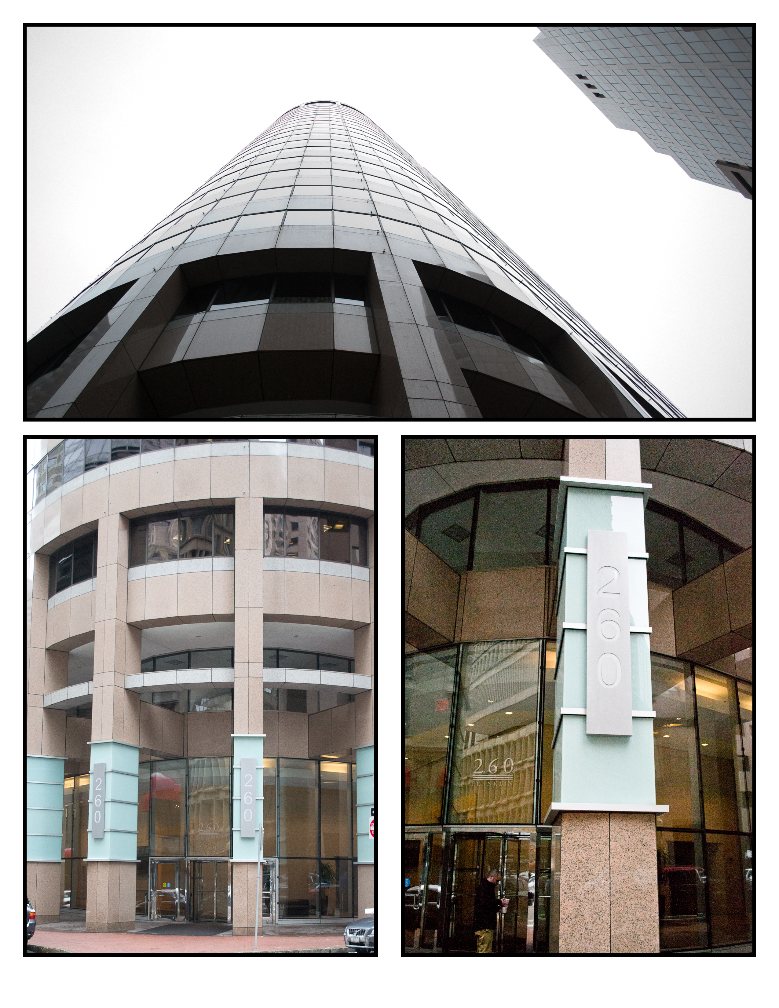 Eze Castle Integration's headquarters. Uploaded with permission from Eze Castle Integration.